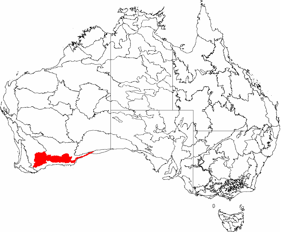 This is a map of the Interim Biogeographic Regionalisation of Australia (IBRA), with state boundaries overlaid. The Mallee region is shown in red.